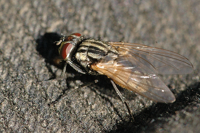 Picture taken in Commanster, Belgian High Ardennes . Species: female Musca domestica